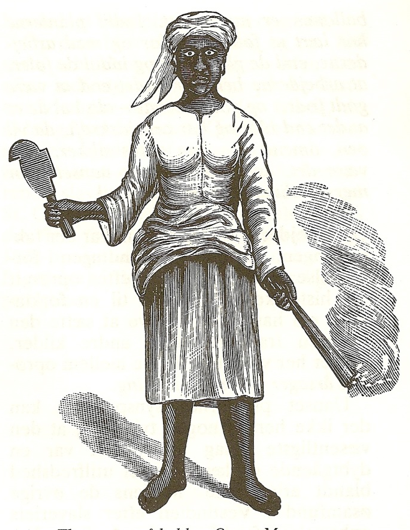 Drawing of "Queen" Mary Thomas, one of the leaders of the 1878 Fireburn riot. Published in Ch. E. Taylor, Leaflets from the Danish Westindies, 1888.